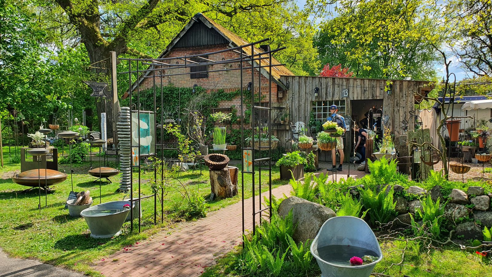 Art blacksmith in Bötersheim